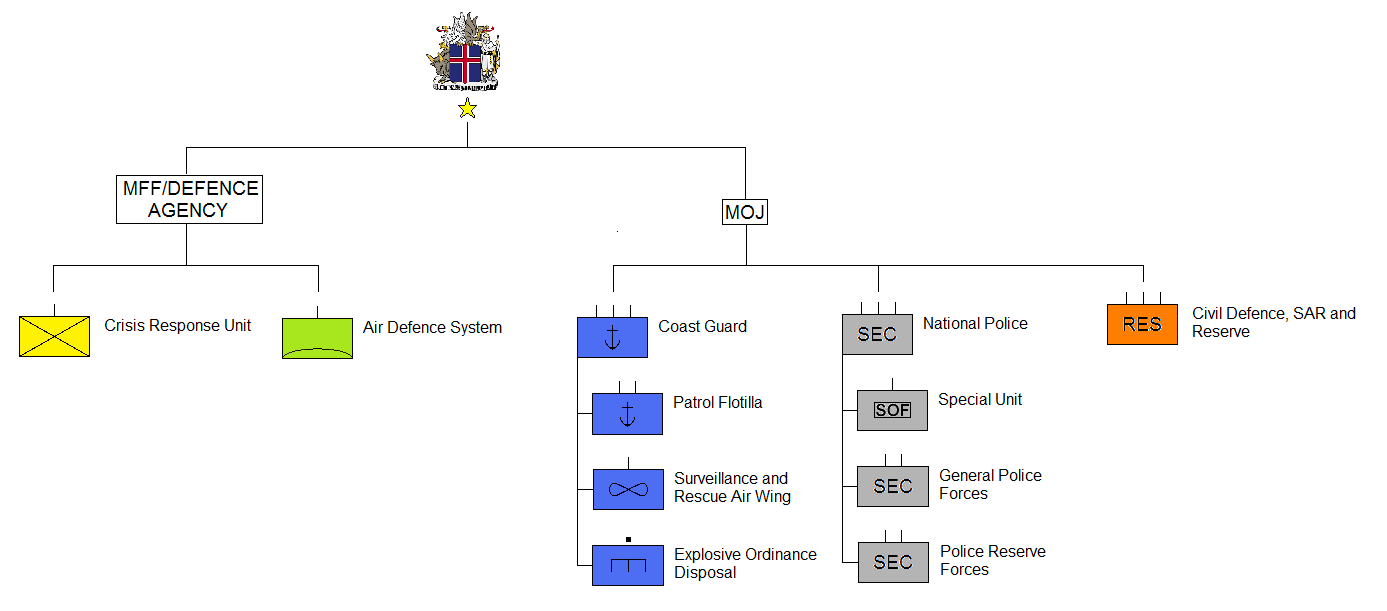 Iceland Orbat